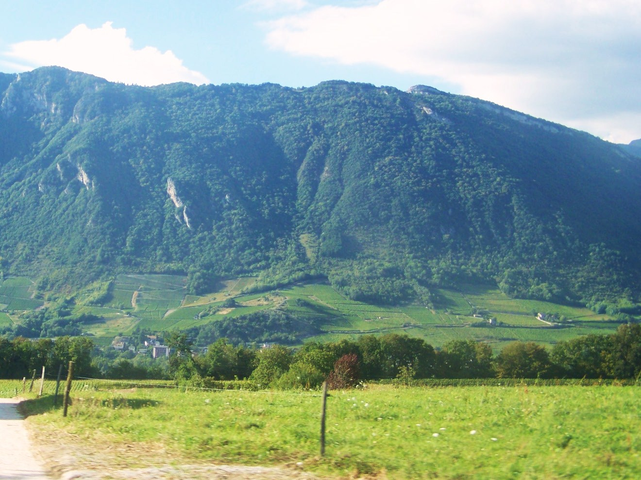 Vineyards of Savoie at Arbin near Chambéry in Savoie, France (mountain: Roche du Guet)